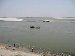 Holy Place